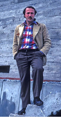 Prof. Hakki B. Ögelman in front of the Cukurova University (CÜ) Solar House construction in 1981.